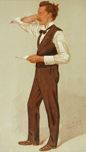 Caricature of Henry John Cockayne-Cust MP (1861-1917). Caption read "The Pall Mall Gazette".